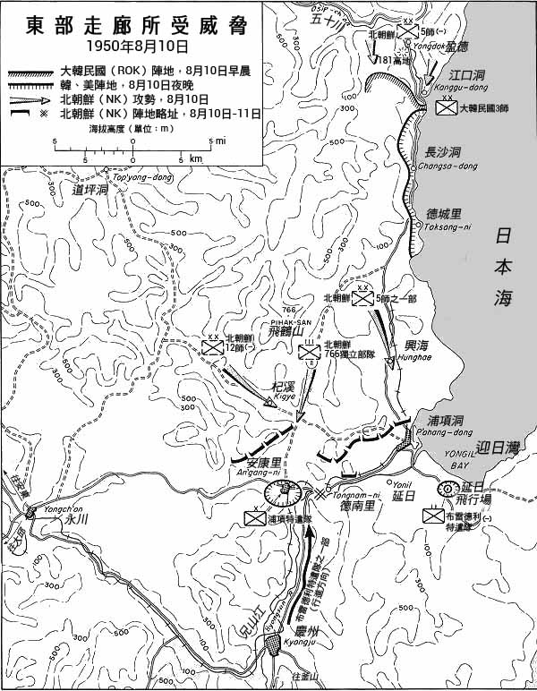 Map of the Battle of P'ohang-dong